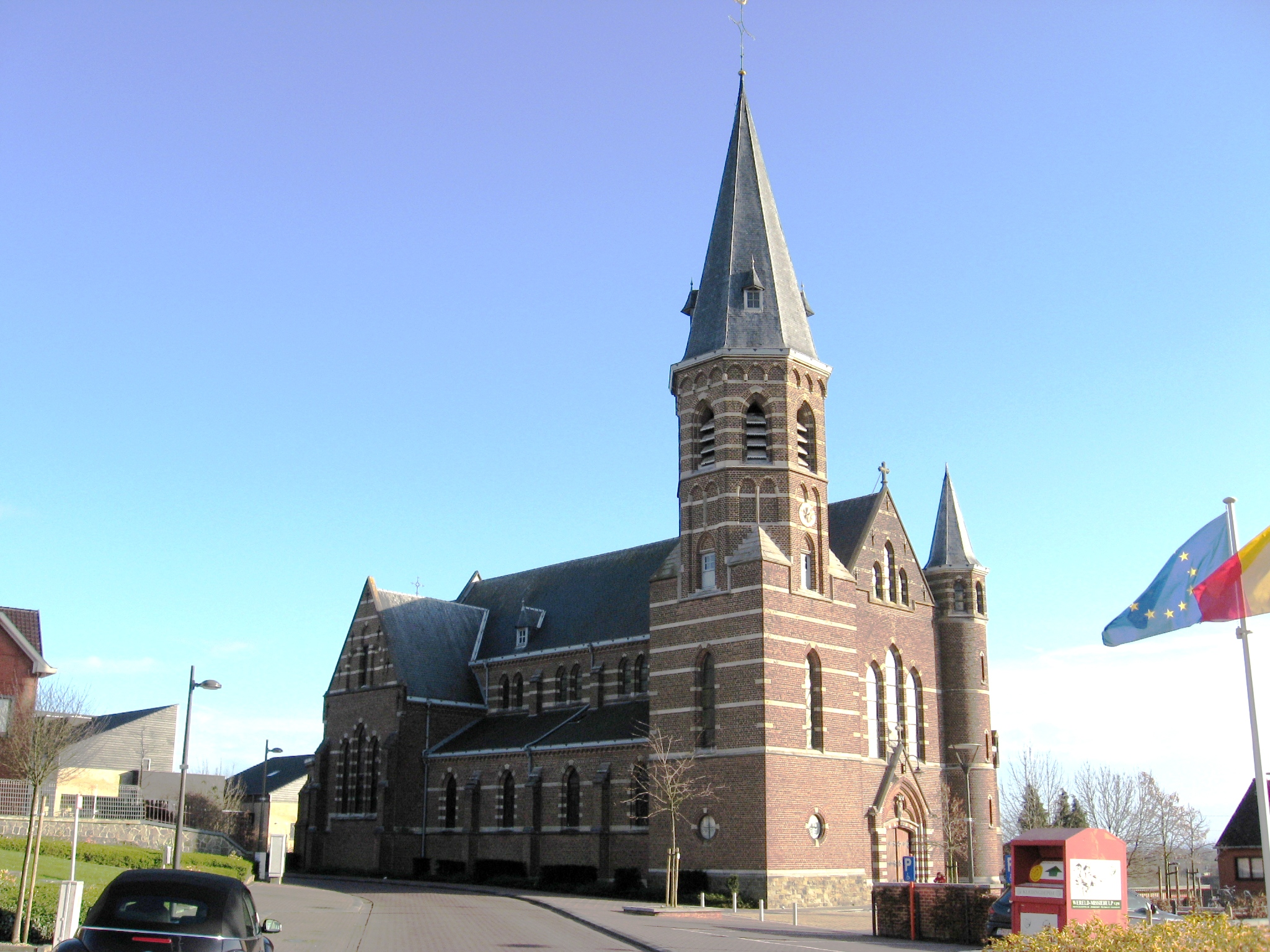 Church of Saint Lawrence in Gellik, Lanaken, Limburg, Belgium